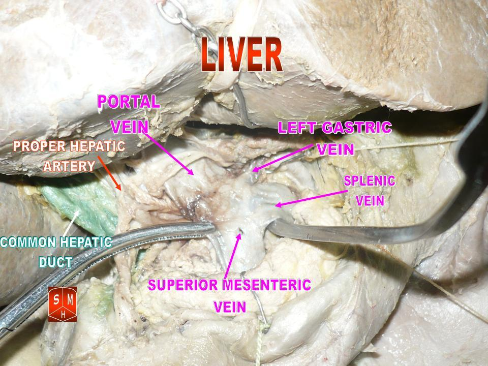 Abdominal cavity